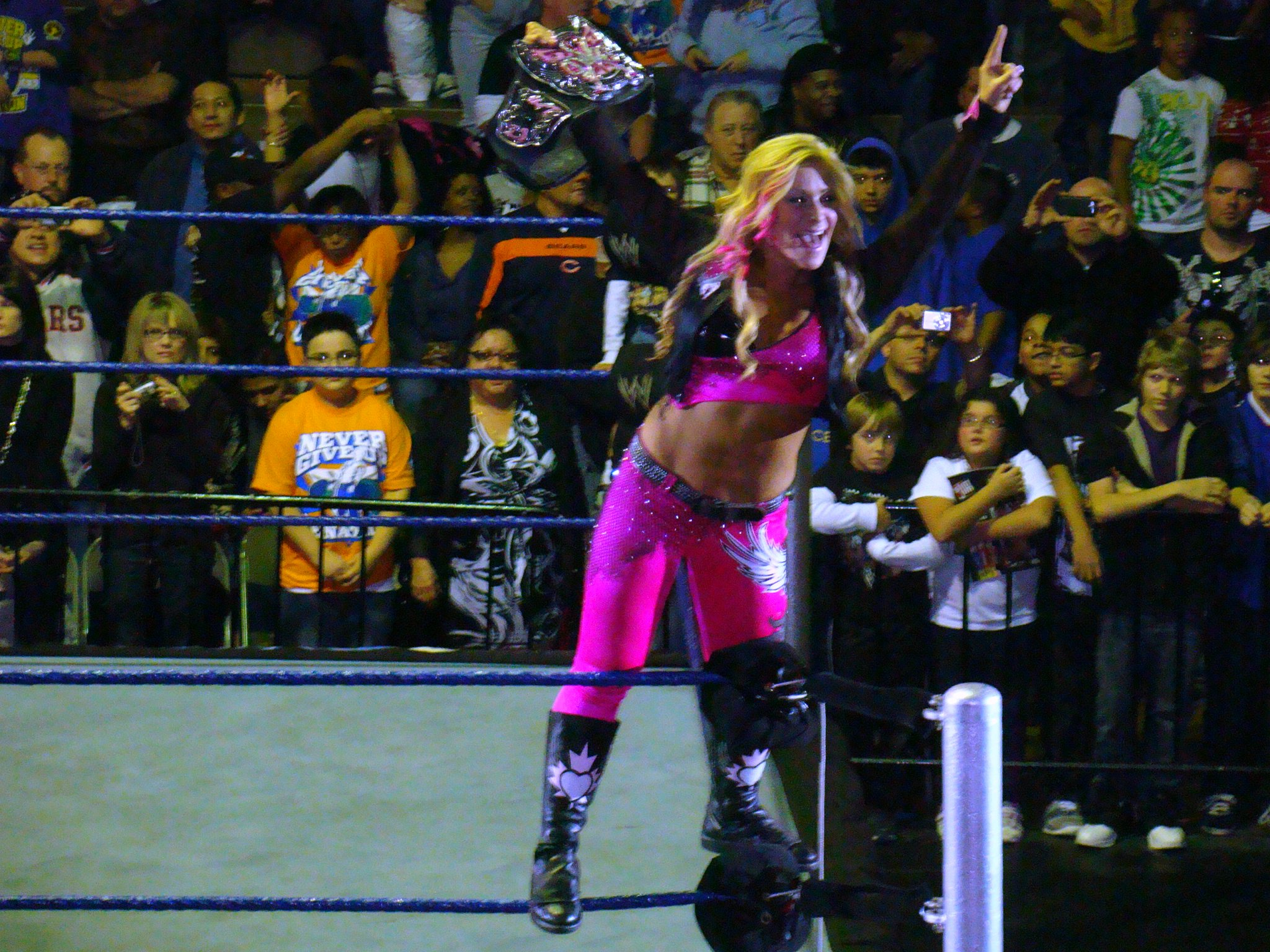 Natalya as the WWE Divas Champion on January 23, 2011, at the Hammond Civic Center in Hammond, Indiana.